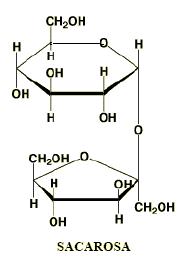 Sacarosa